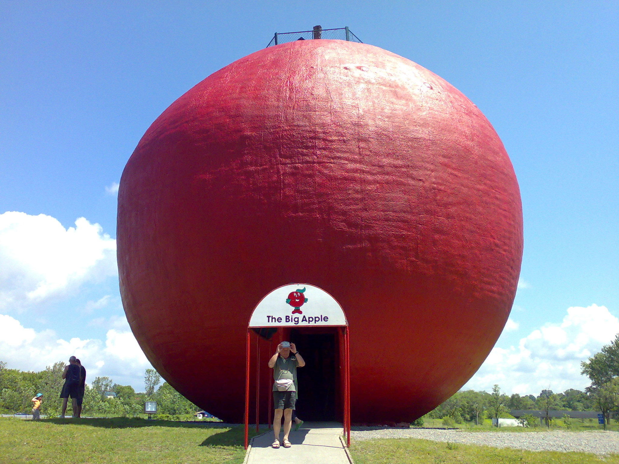 The Big Apple is a bakery, restaurant and roadside attraction in Colborne, Ontario, which is recognizable from Ontario Highway 401 because of what it claims is the world's largest apple.